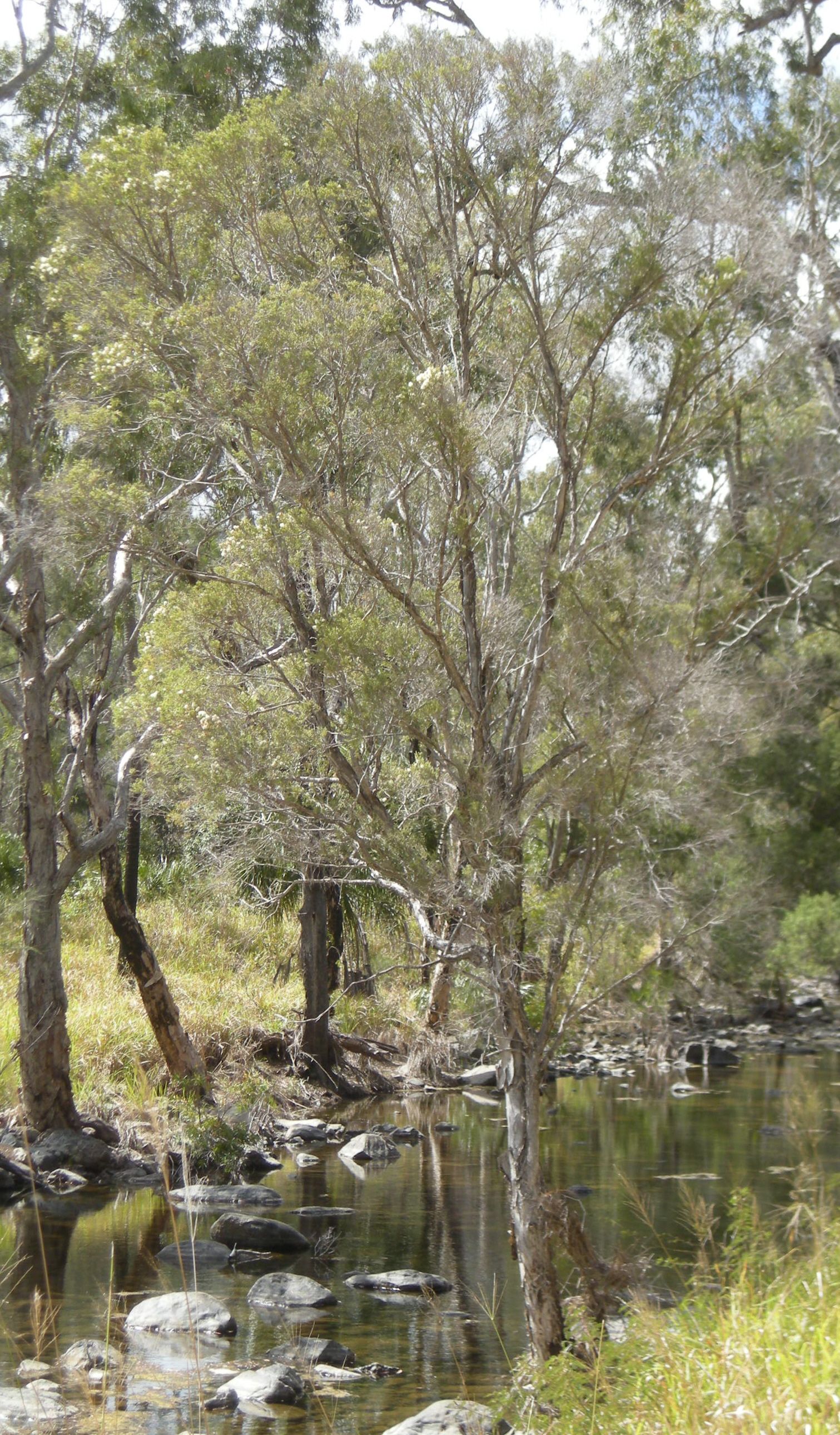 Melaleuca linariifolia (M. trichostachya) tree, Mount Archer National Park, Rockhampton